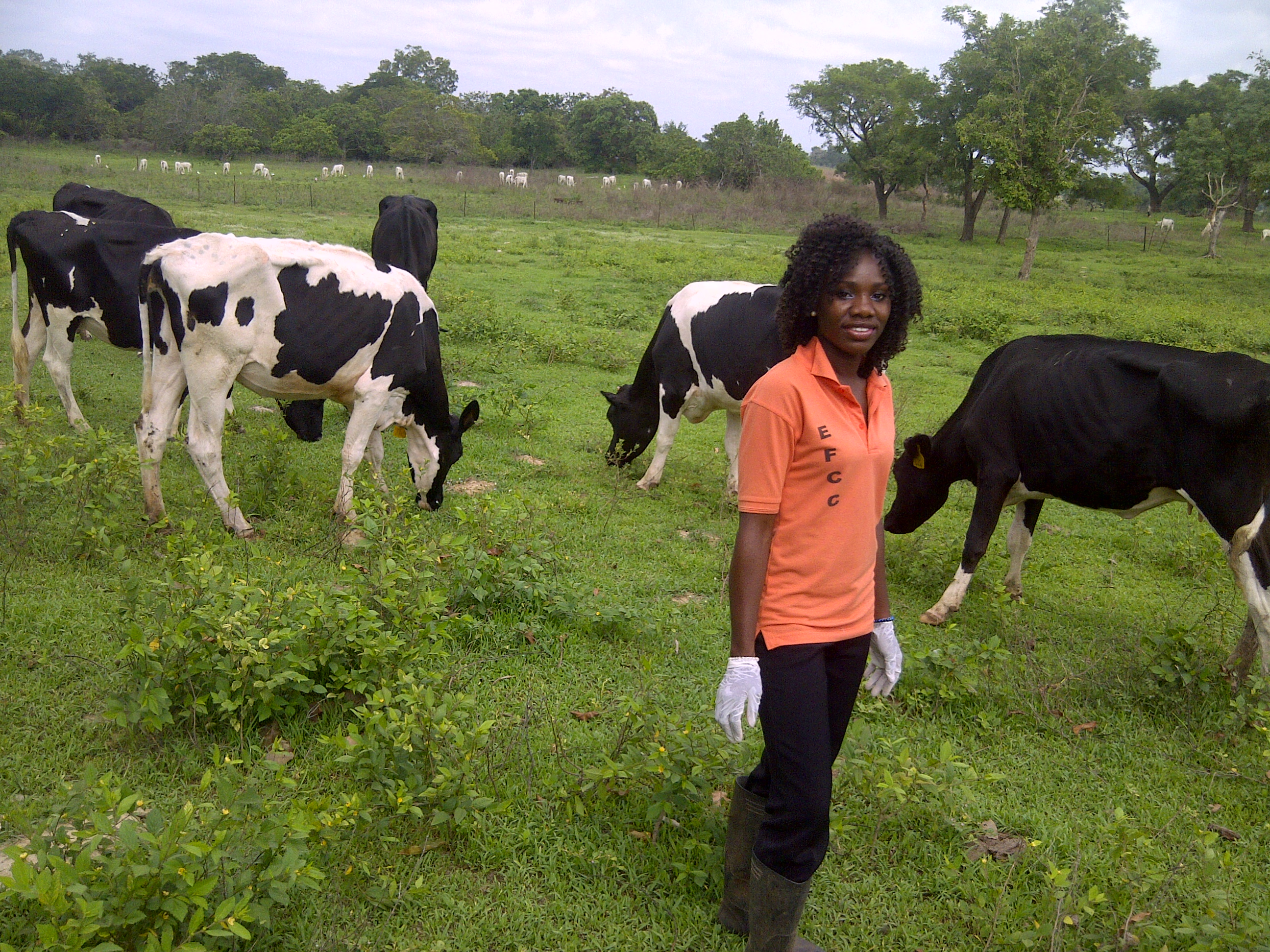 This is an image of "African people at work" from Nigeria